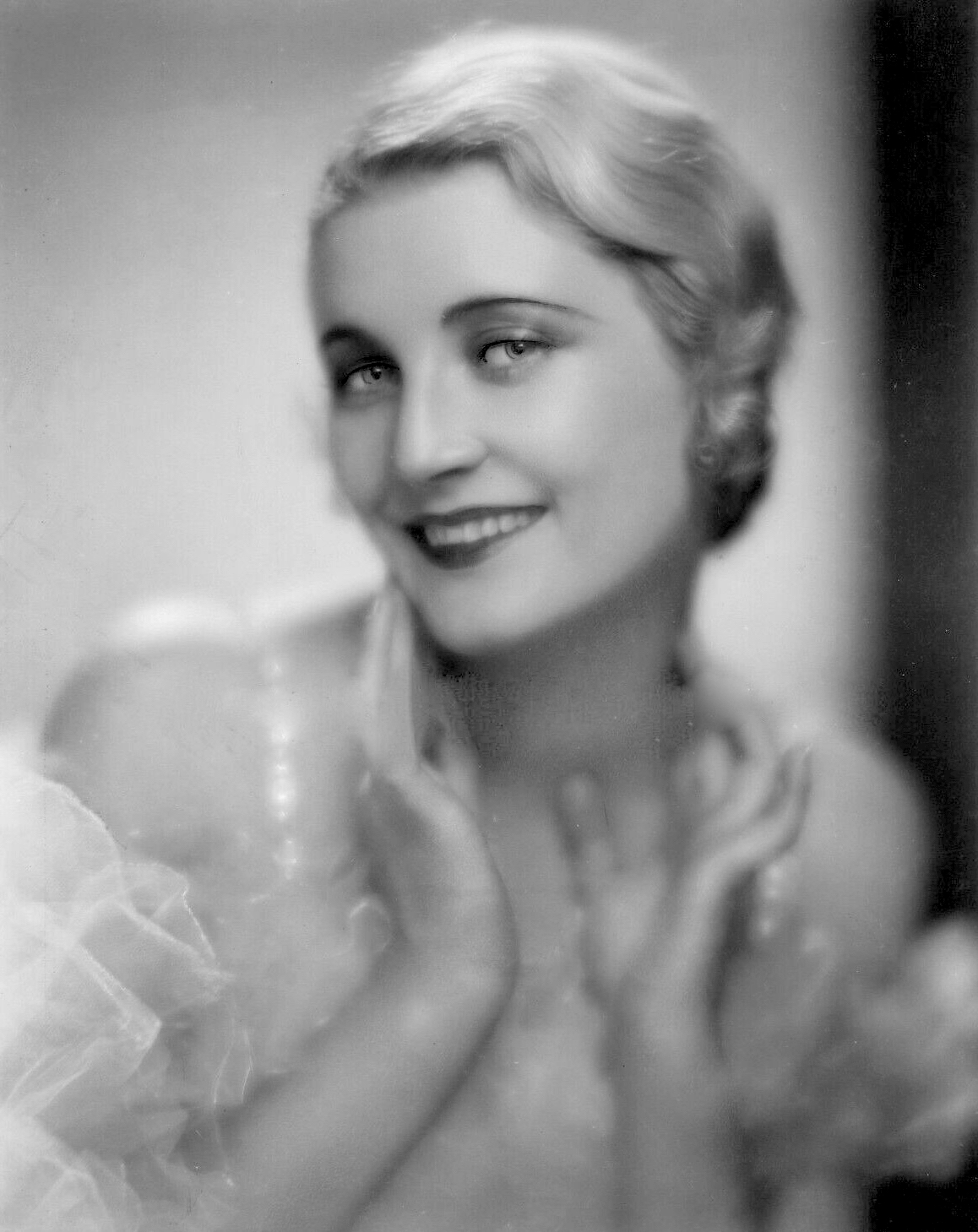 Publicity still of Jeanette Loff promoting King of Jazz